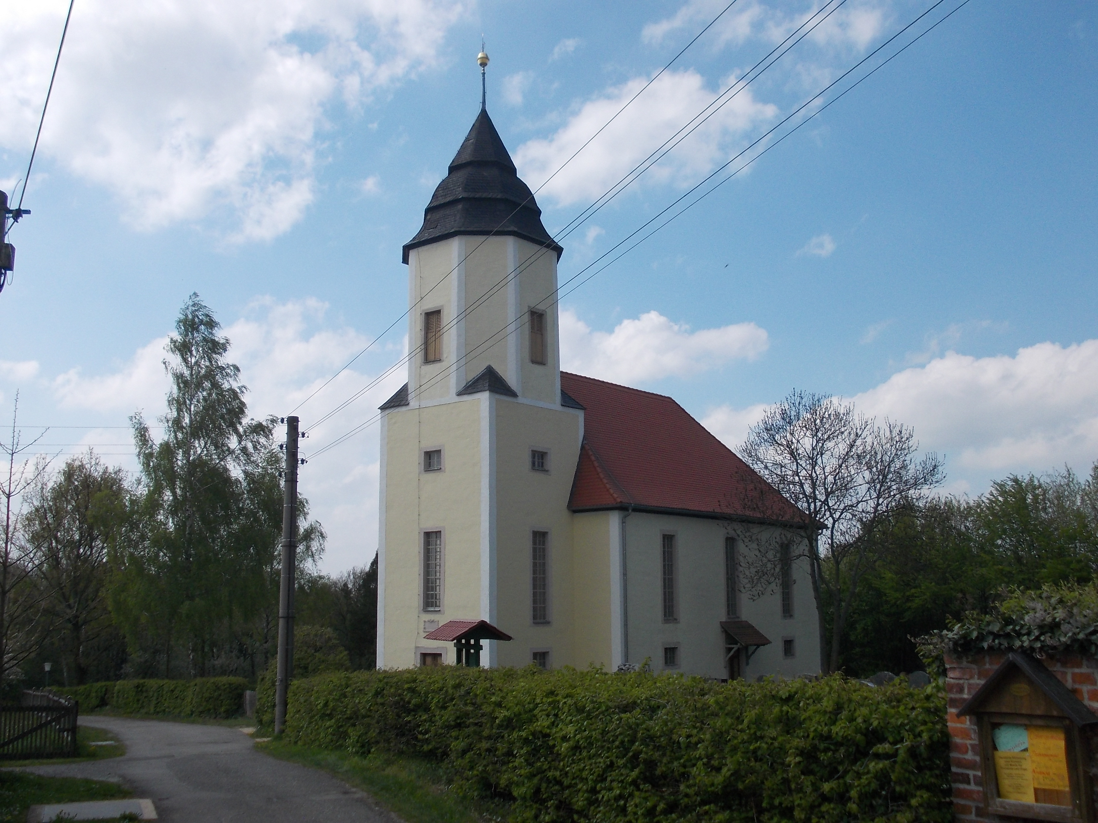 Lindau church (Heideland, district: Saale-Holzland-Kreis, Thuringia)